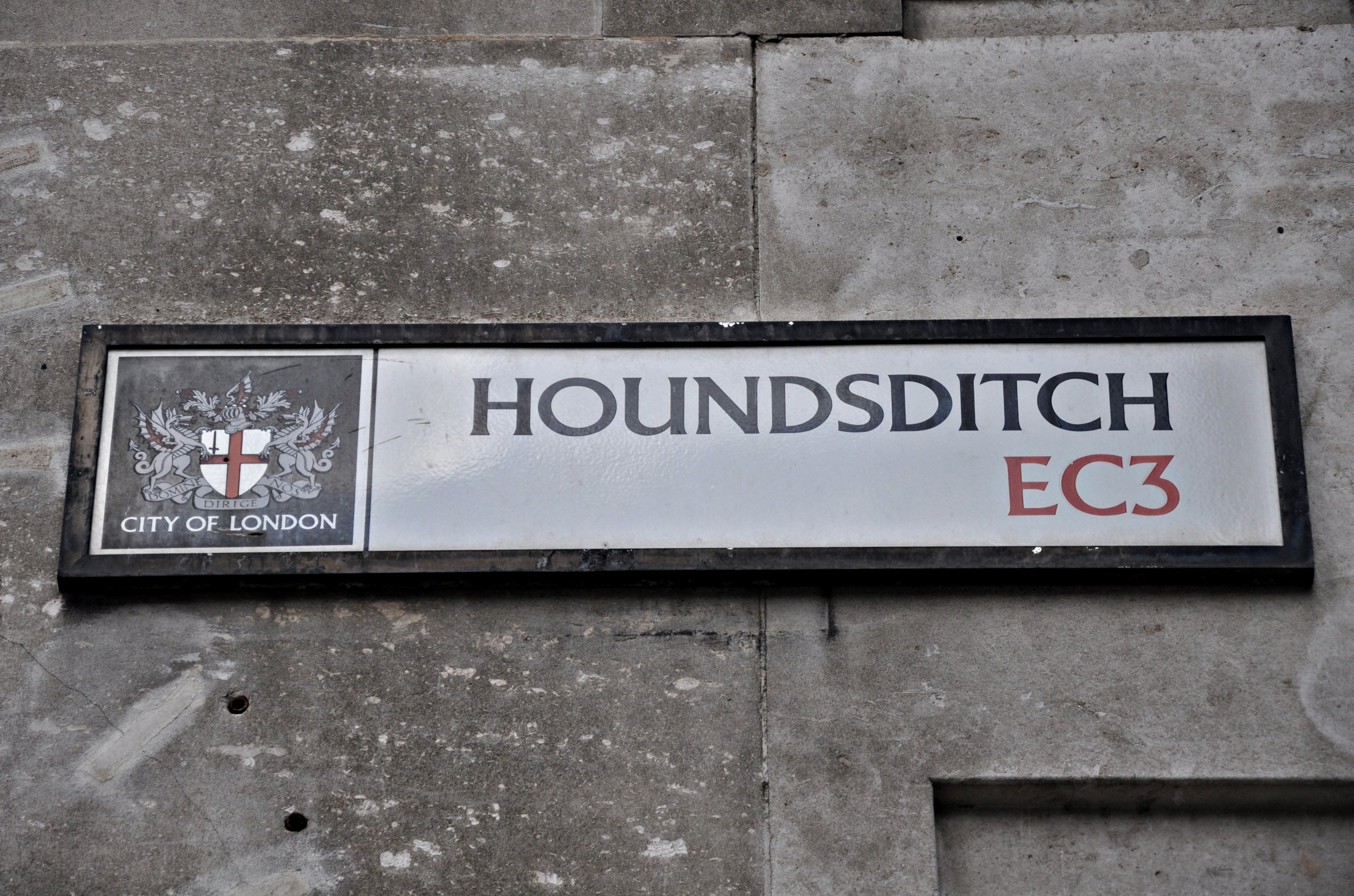 Houndsditch sign Camera: Nikon D90 License on Flickr (2011-02-12): CC-BY-2.0 Flickr tags: London, England, United Kingdom, Andaz, Liverpool Street, Hyatt, Hyatt Hotels and Resorts, Nido